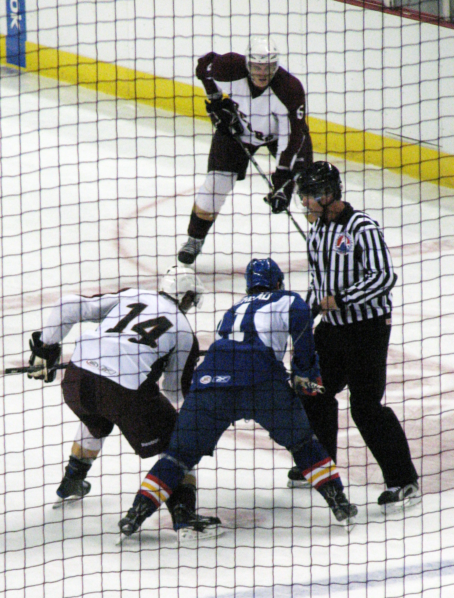 A Hershey Bears player (in white) facing off against a Norfolk Admirals player (in blue) while a referee and a second Bears player look on.